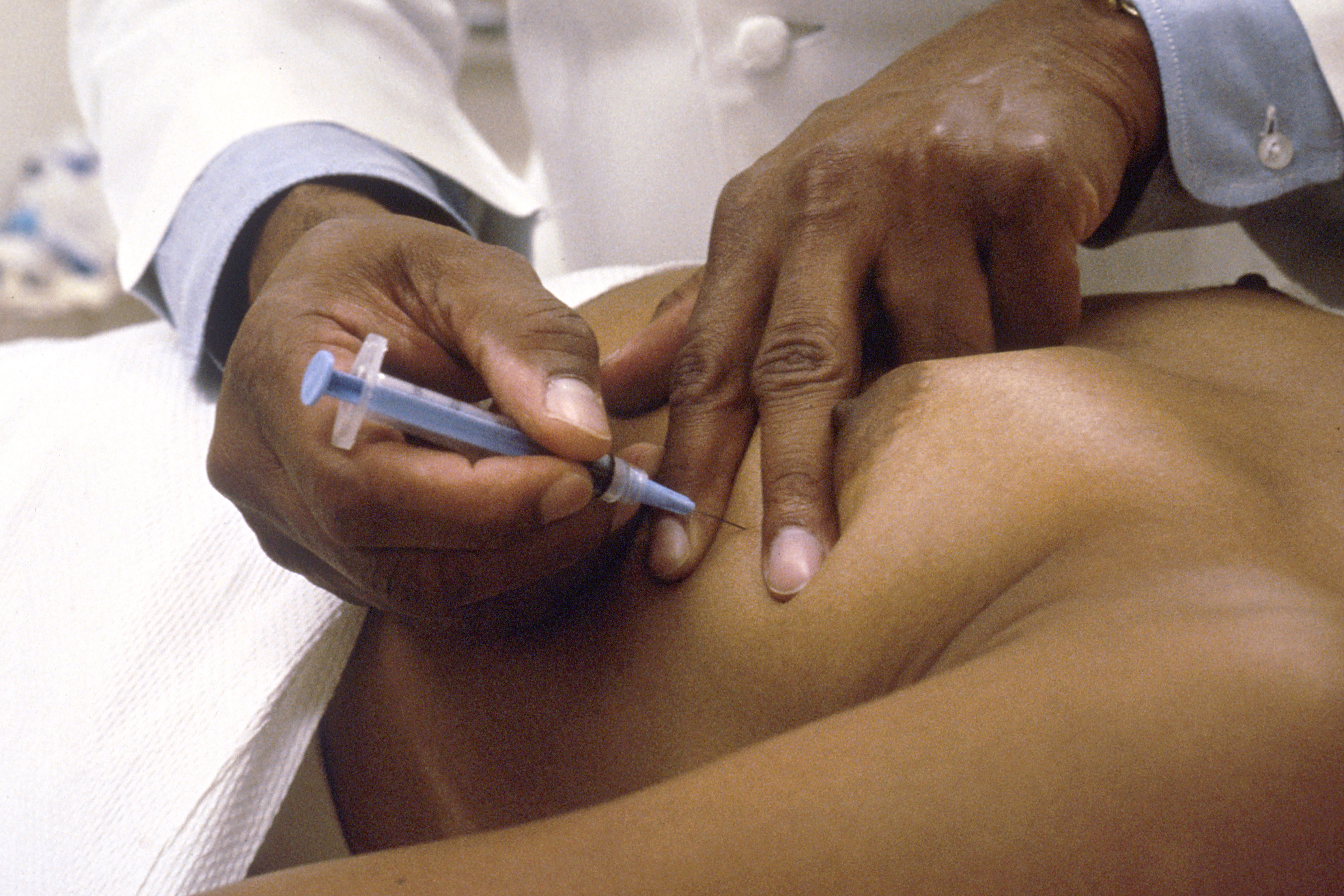 Title: Diagnosis: Biopsy: Needle: Breast Cancer Description: Adult black female breast visible. Physician's hands are seen performing a needle biopsy to determine nature of lump either fluid-filled cyst or solid tumor. Subjects (names): Topics/Categories: Diagnosis -- Biopsy Type: Color Slide Source: National Cancer Institute Author: Linda Bartlett (photographer) AV Number: AV-8000-0272 Date Created: 1980 Date Added: 1/1/2001 Reuse Restrictions: None - This image is in the public domain and can be freely reused. Please credit the source and/or author listed above.